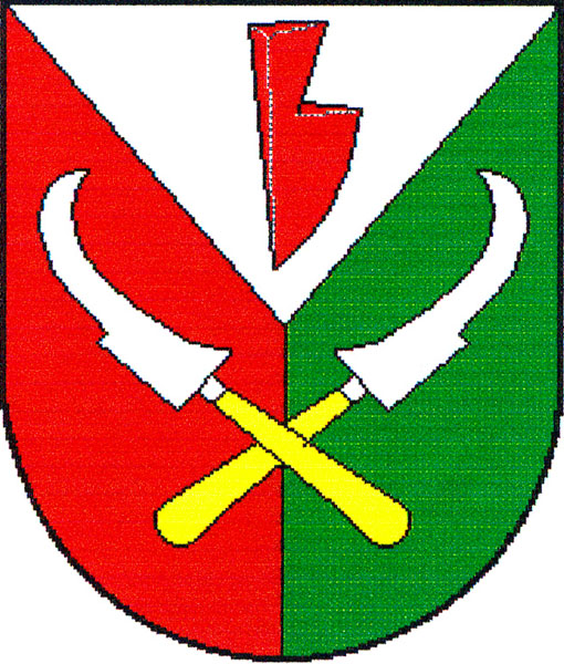 Municipal coat of arms of Nížkovice village, Vyškov District, Czech Republic.